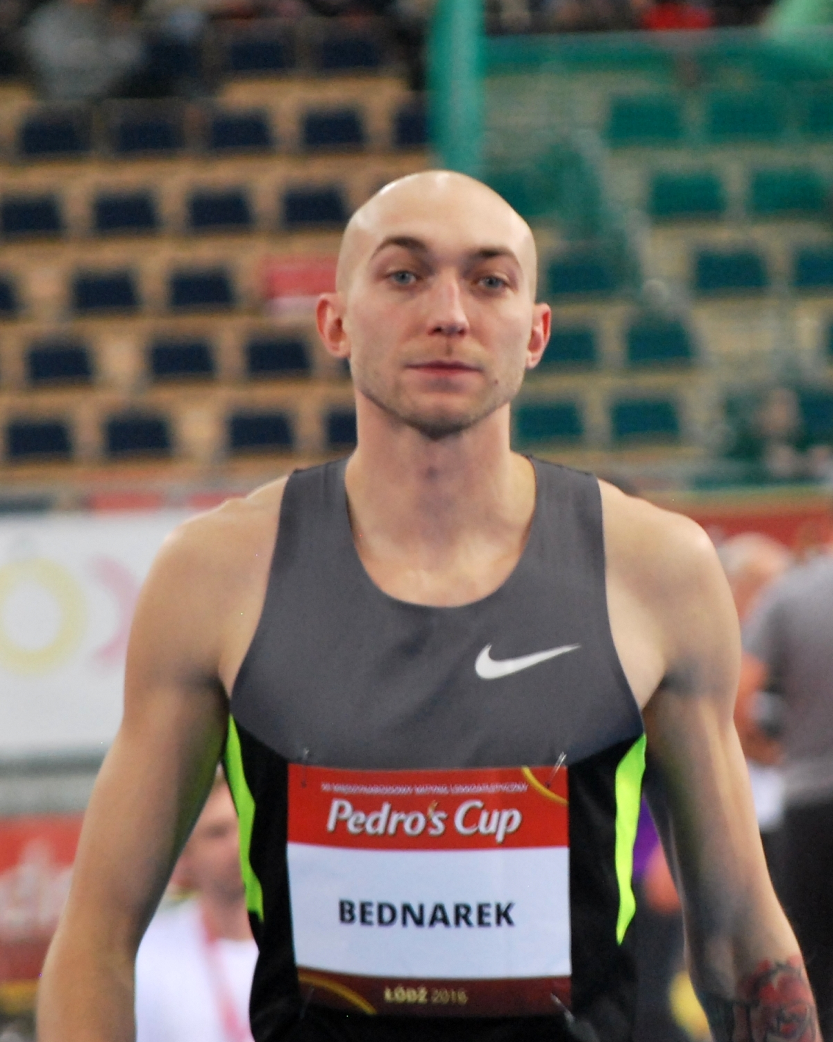 Sylwester Bednarek, high jumper from Poland, Pedro's Cup Łódź 2016